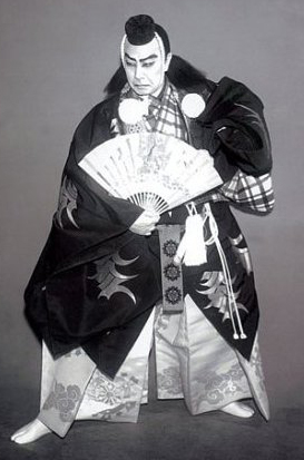 Kōshirō Matsumoto VII (1870–1949) as Benkei, in the 1943 production of Kanjinchō at Tokyo Kabukiza